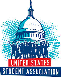 United States Student Association Logo